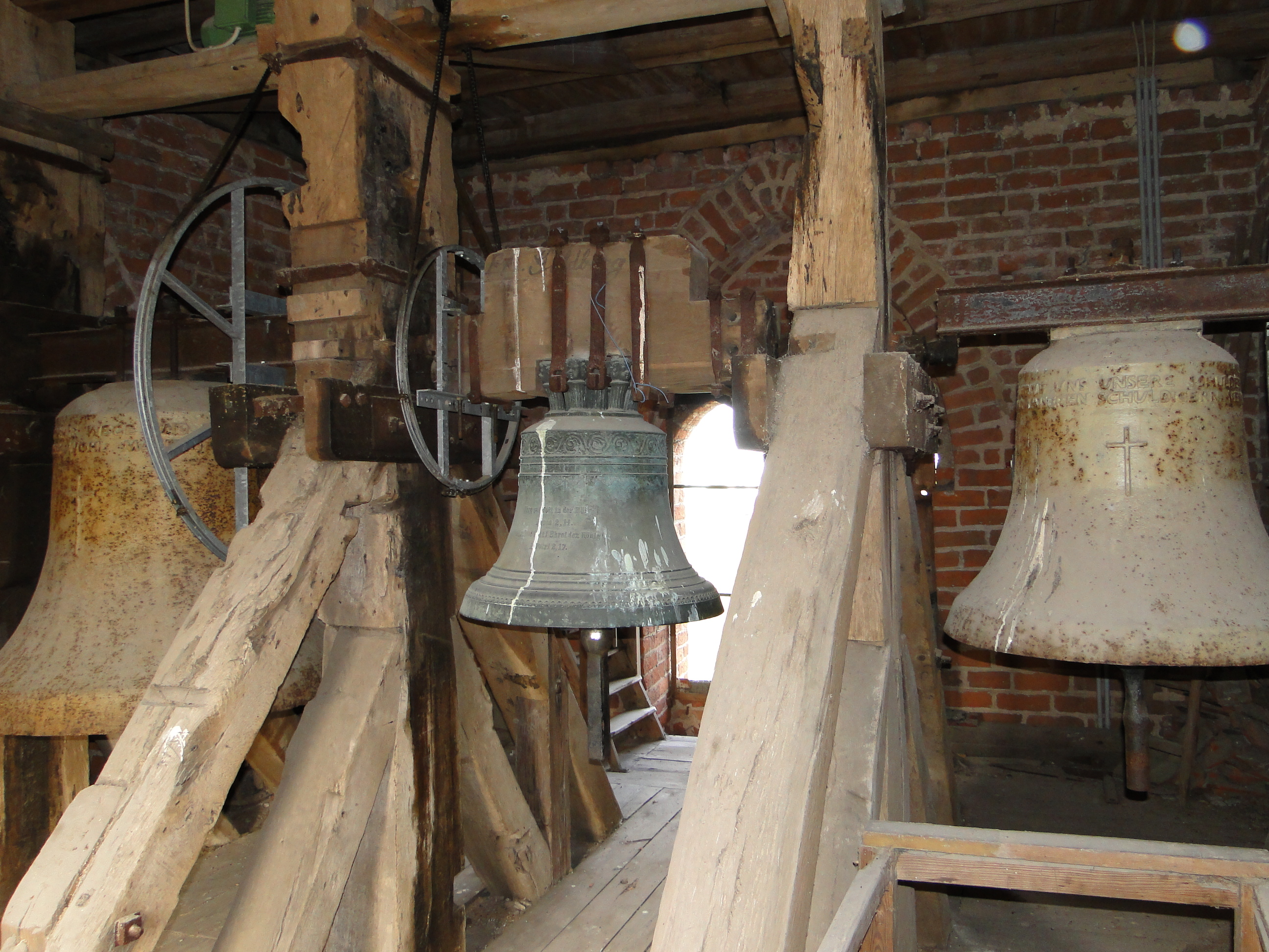 Church in Goldberg, district Ludwigslust-Parchim, Mecklenburg-Vorpommern, Germany